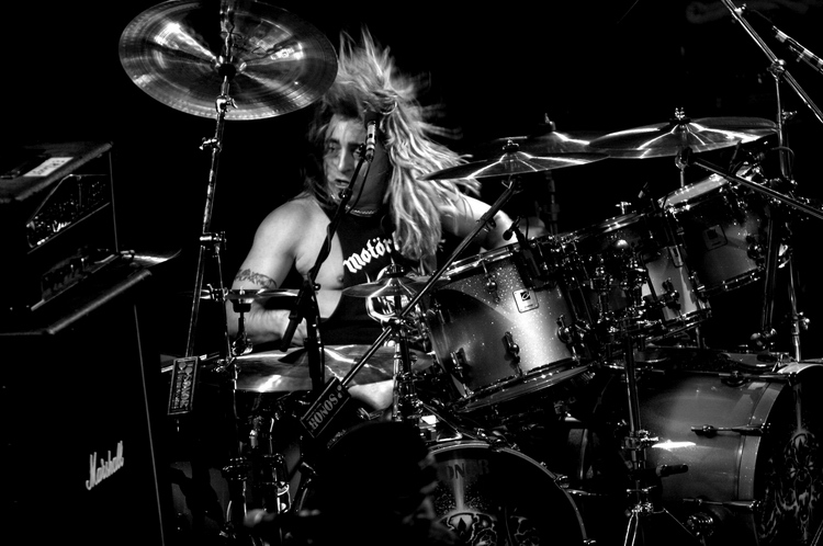 Mikkey Dee Live at Reds, Edmonton, May, 2005